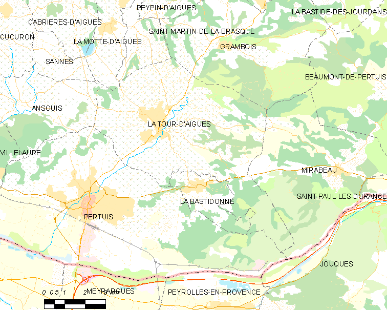 Map of French municipality La Tour-d'Aigues